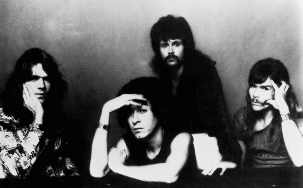 Photo of the rock group Sugarloaf.